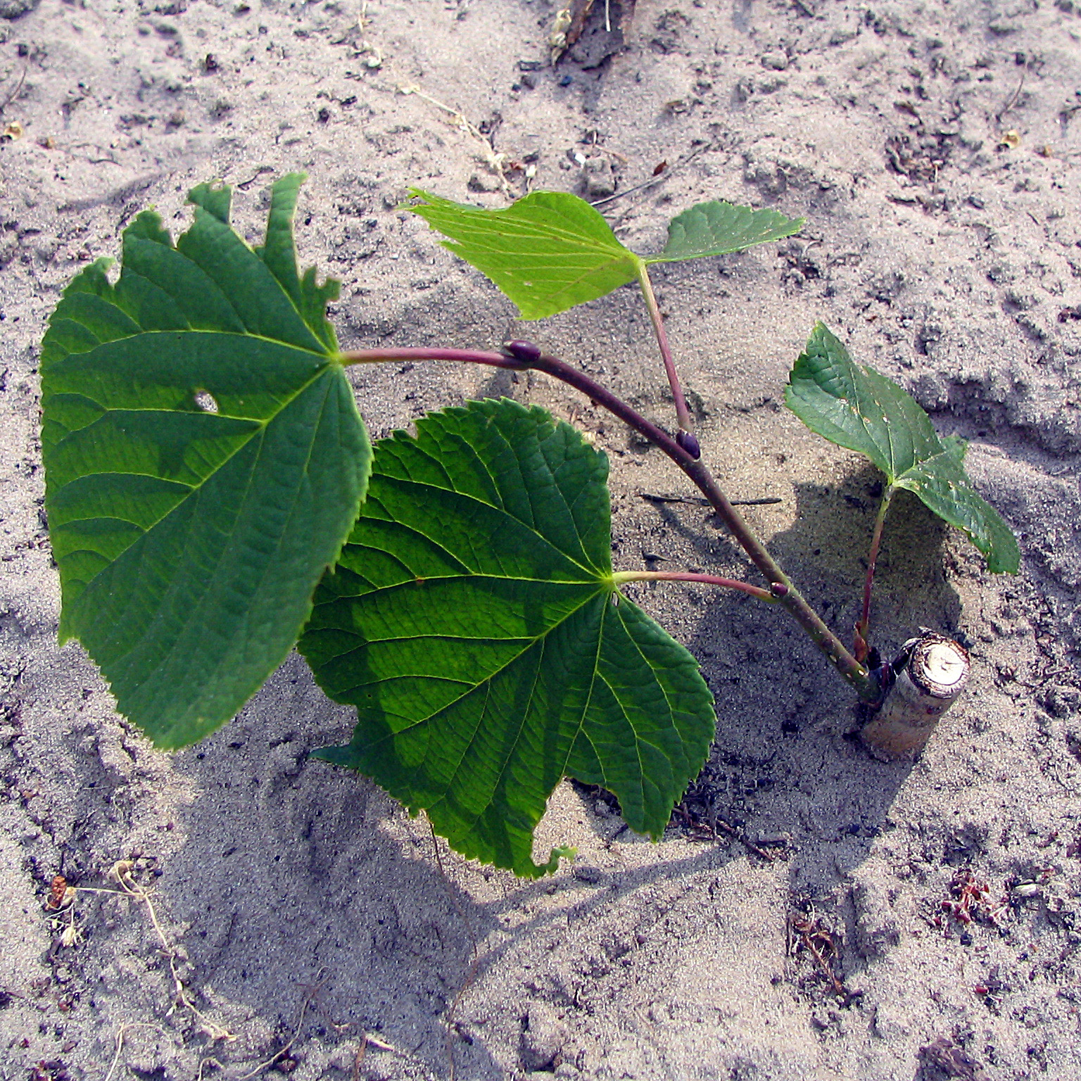 Tilia platyphyllos 'Panonia' chip budding, Džambula nurseries, Subotica, Serbia